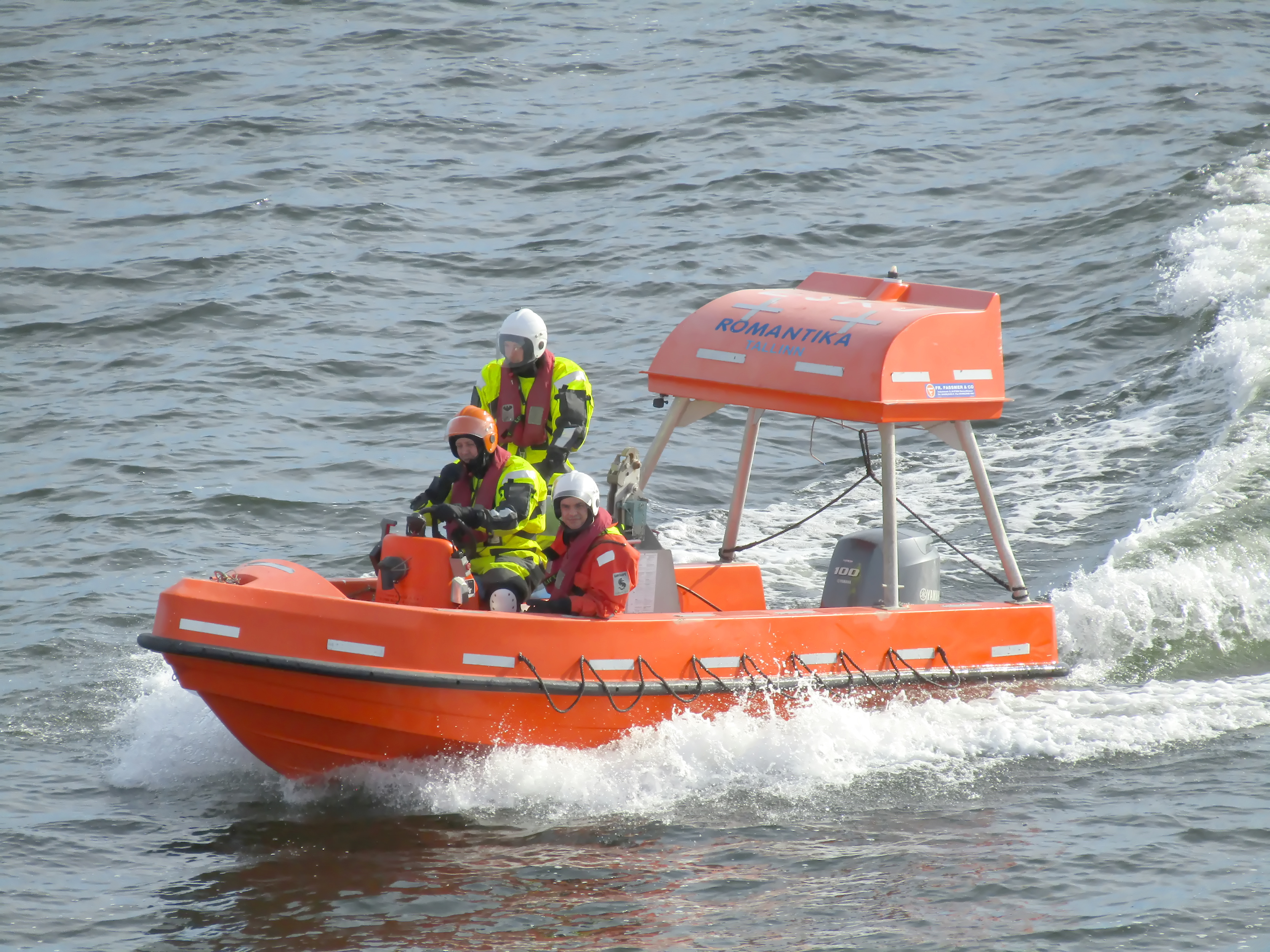 The MOB ("man overboard") boat of MS Romantika training